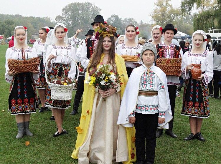 The traditional festival "Golden Autumn". As usual, the holiday crowns the agricultural season. This photo has been taken in the country: Moldova